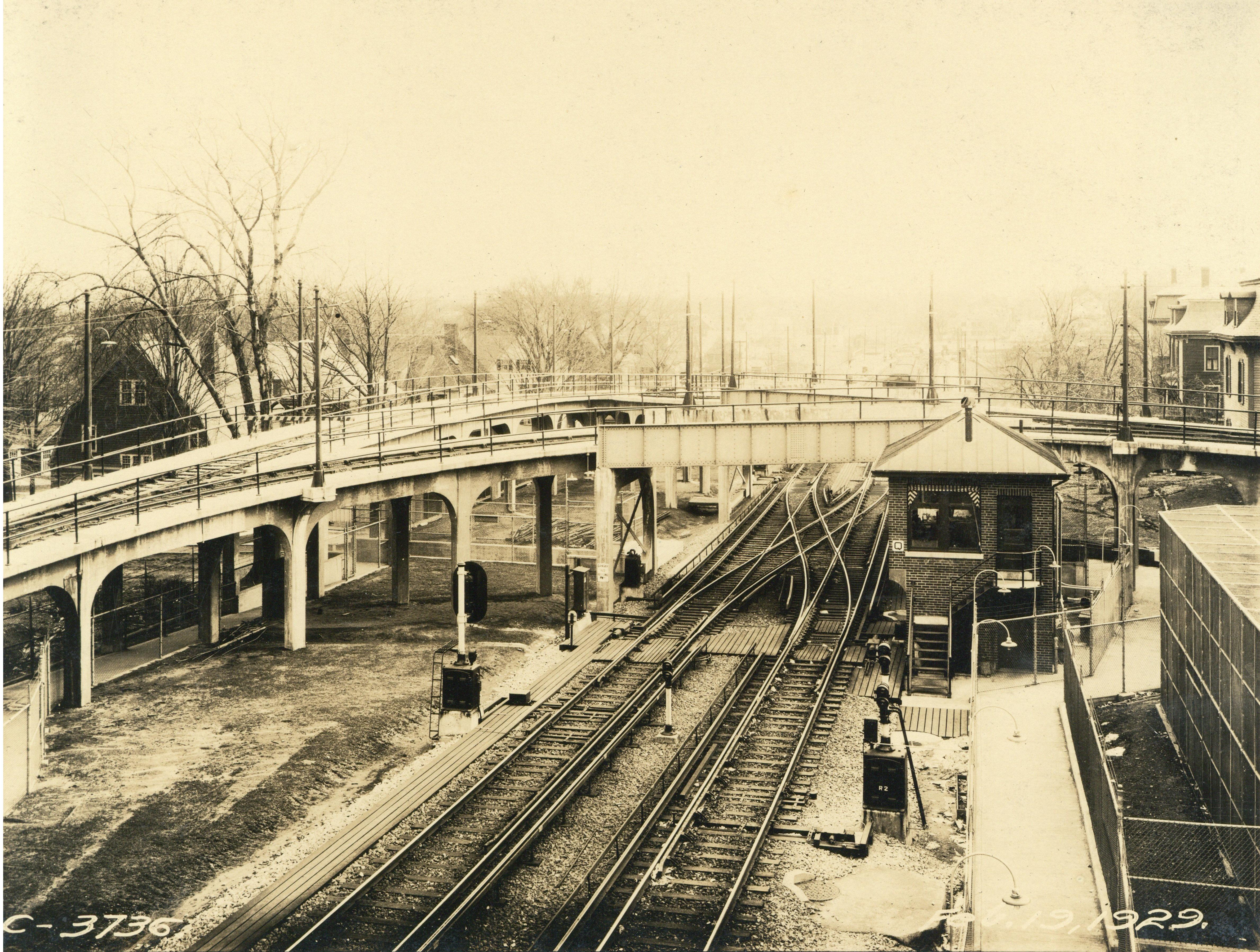 Viaducts for the Ashmont-Mattapan Line (far left viaduct) and surface streetcar lines at the south end of Ashmont station in February 1929